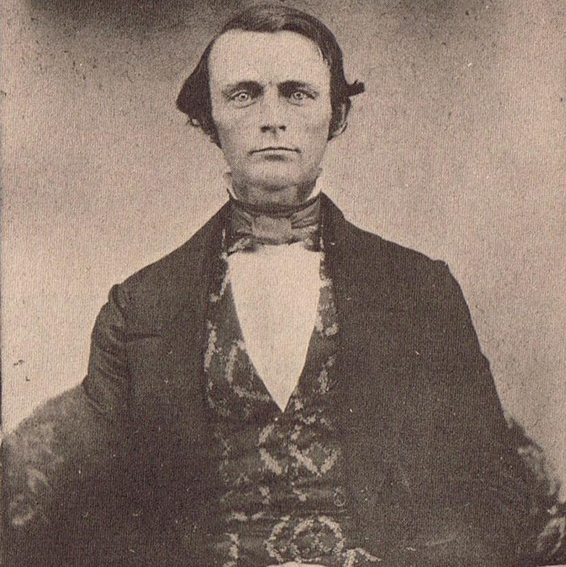 This is being uploaded for informational purposes. It is merely a scanned copy of a Chicago Historical Society photo from a book called Hyde Park Houses that is cited on the article page.